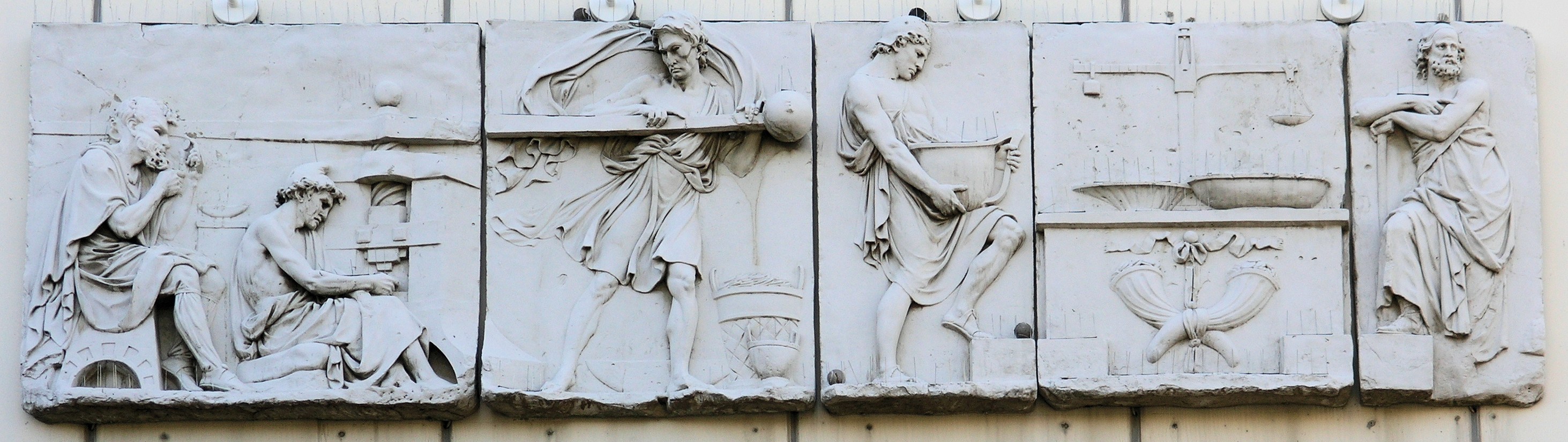 Memorial plaque, Münzfries, Alt-Moabit 10, Berlin-Moabit, Germany